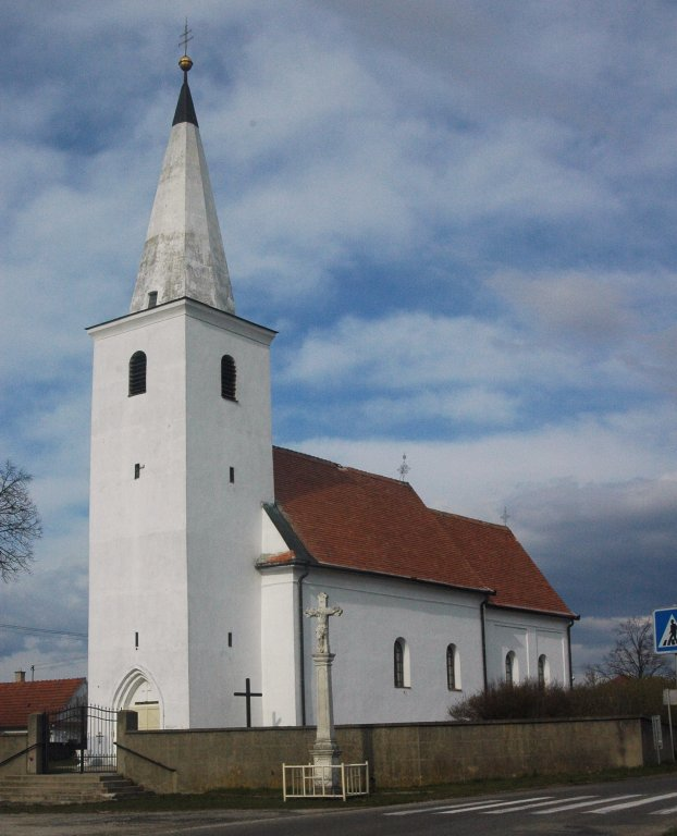 Plavecký Peter, catholic church (1600)